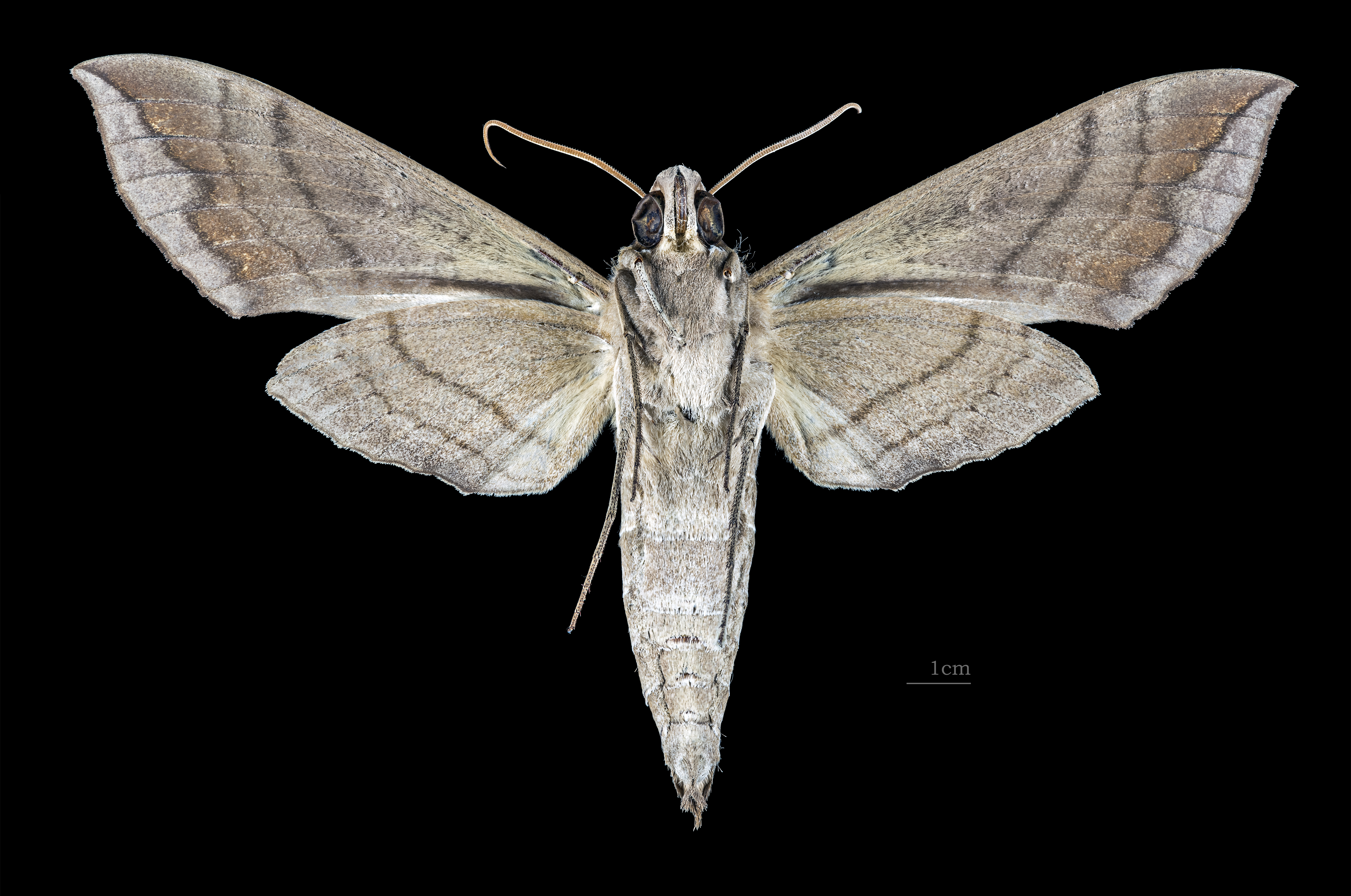 Eumorpha megaeacus - △ Ventral side Collection of the Mathematician Laurent Schwartz